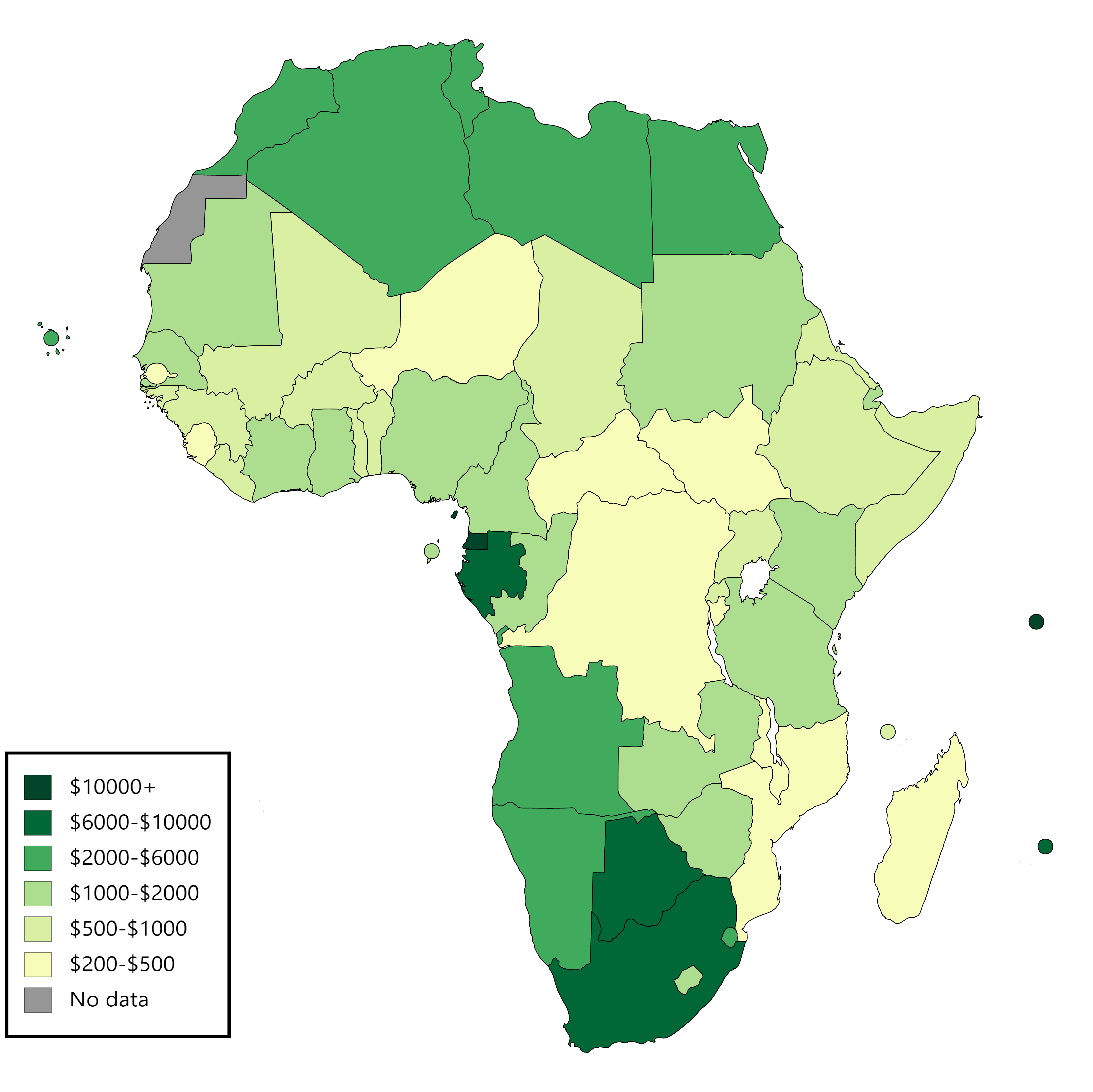 This Is Updated Map Of Africa by 2017 nominal GDP Per Capita (USD)